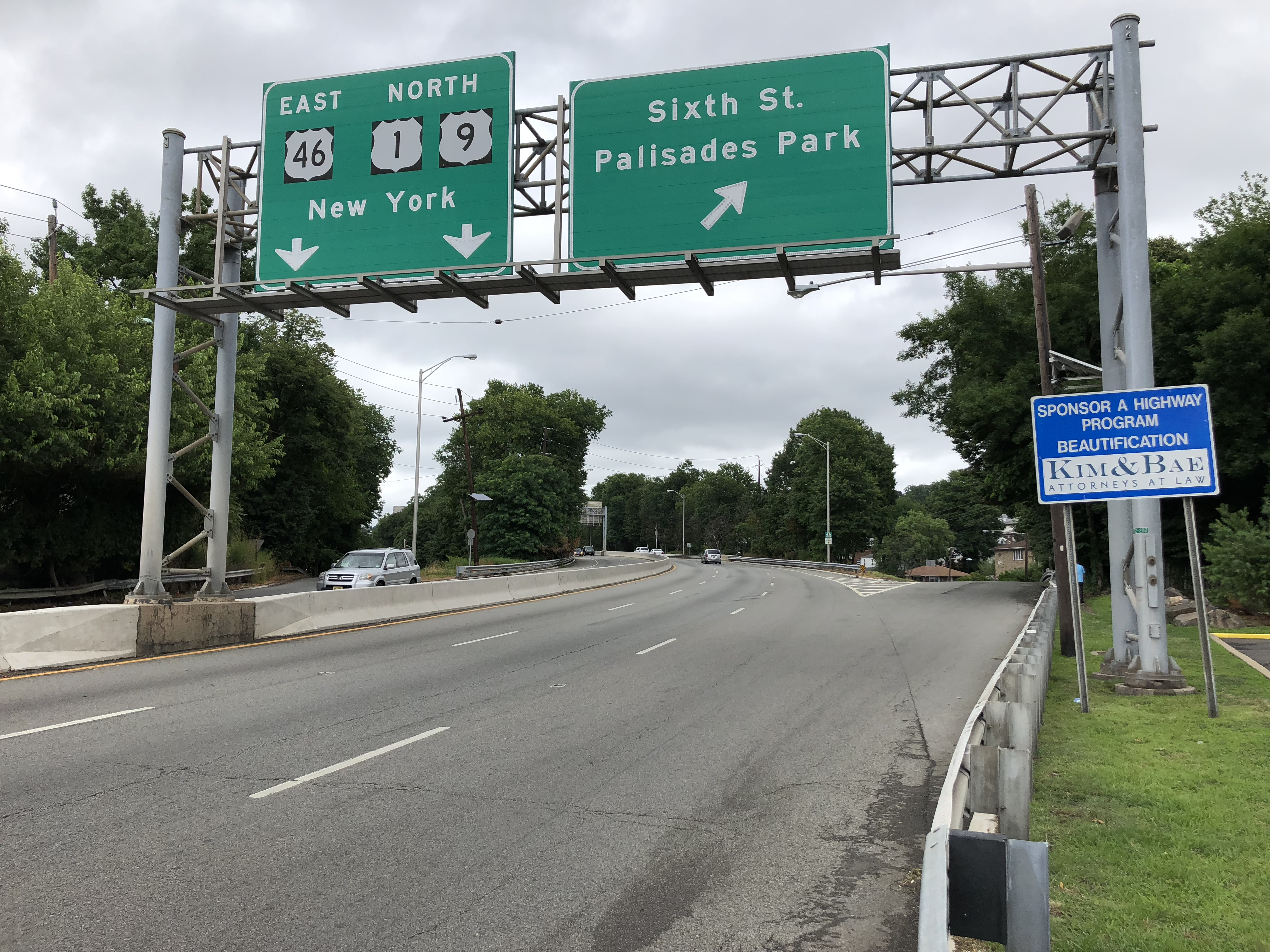 View north along U.S. Route 1 and U.S. Route 9 and east along U.S. Route 46 at the exit for Sixth Street (Palisades Park) in Palisades Park, Bergen County, New Jersey